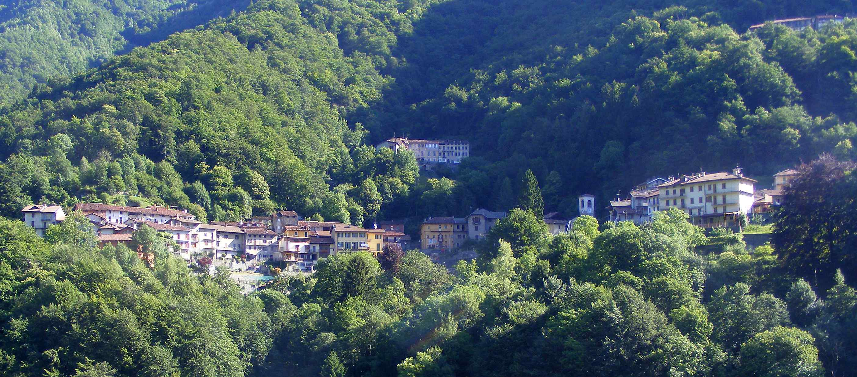 Quittengo (BI, Italy): panorama from San Paolo Cervo